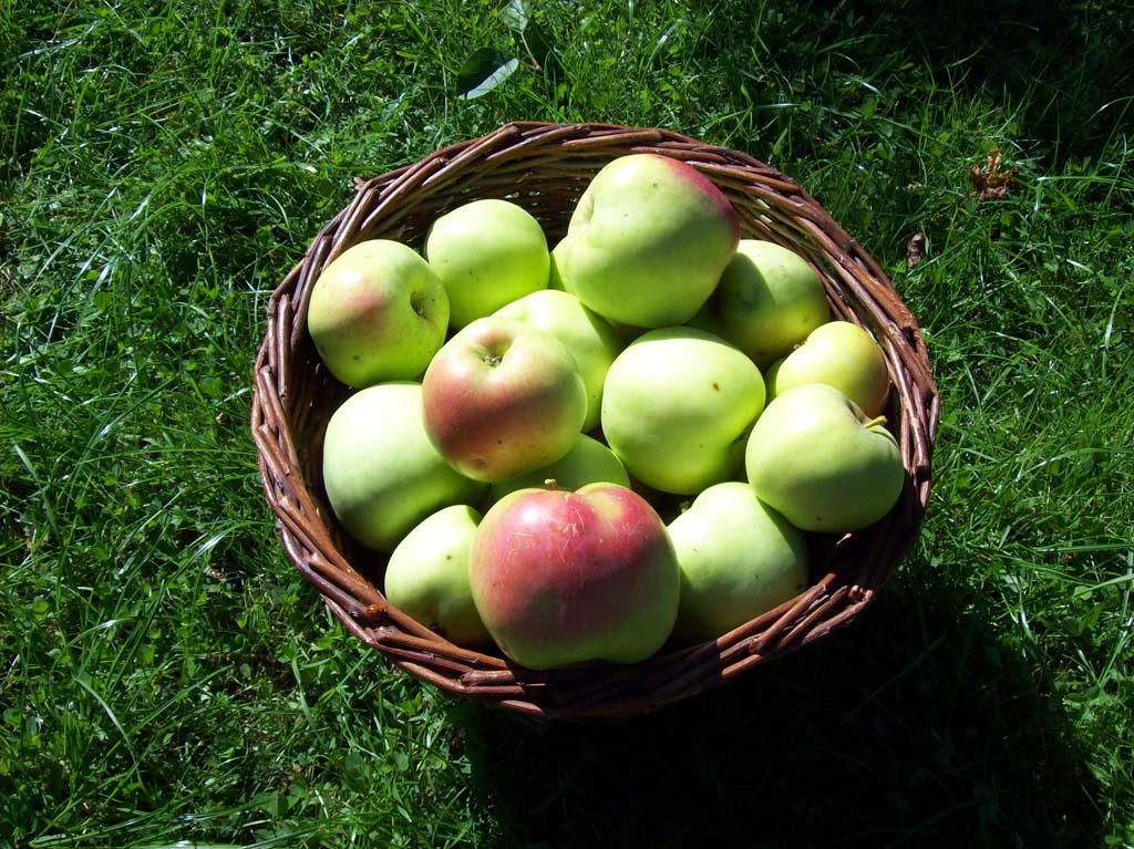 Filippa, a Danish apple cultivar.